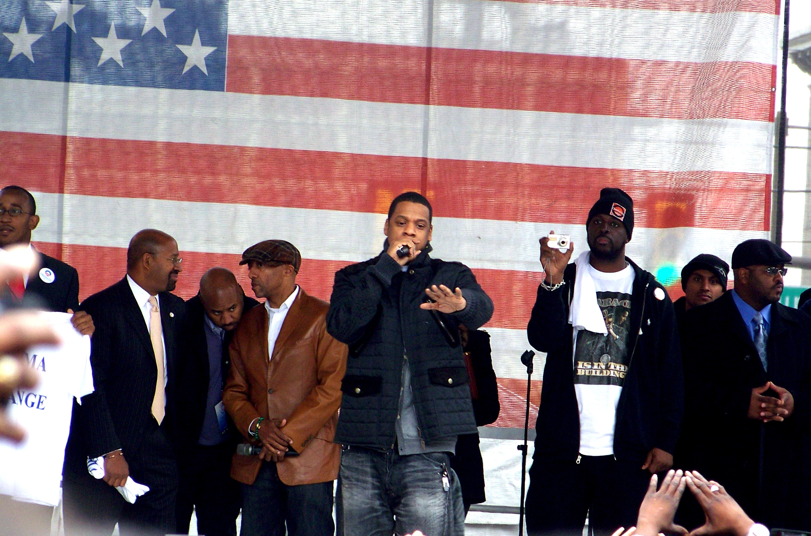 Jay-Z hosts a rally to Barack Obama in Philadelphia on the day before the election. Jay-Z was joined by Mary J. Blige, P.Diddy, and his wife Beyoncé.